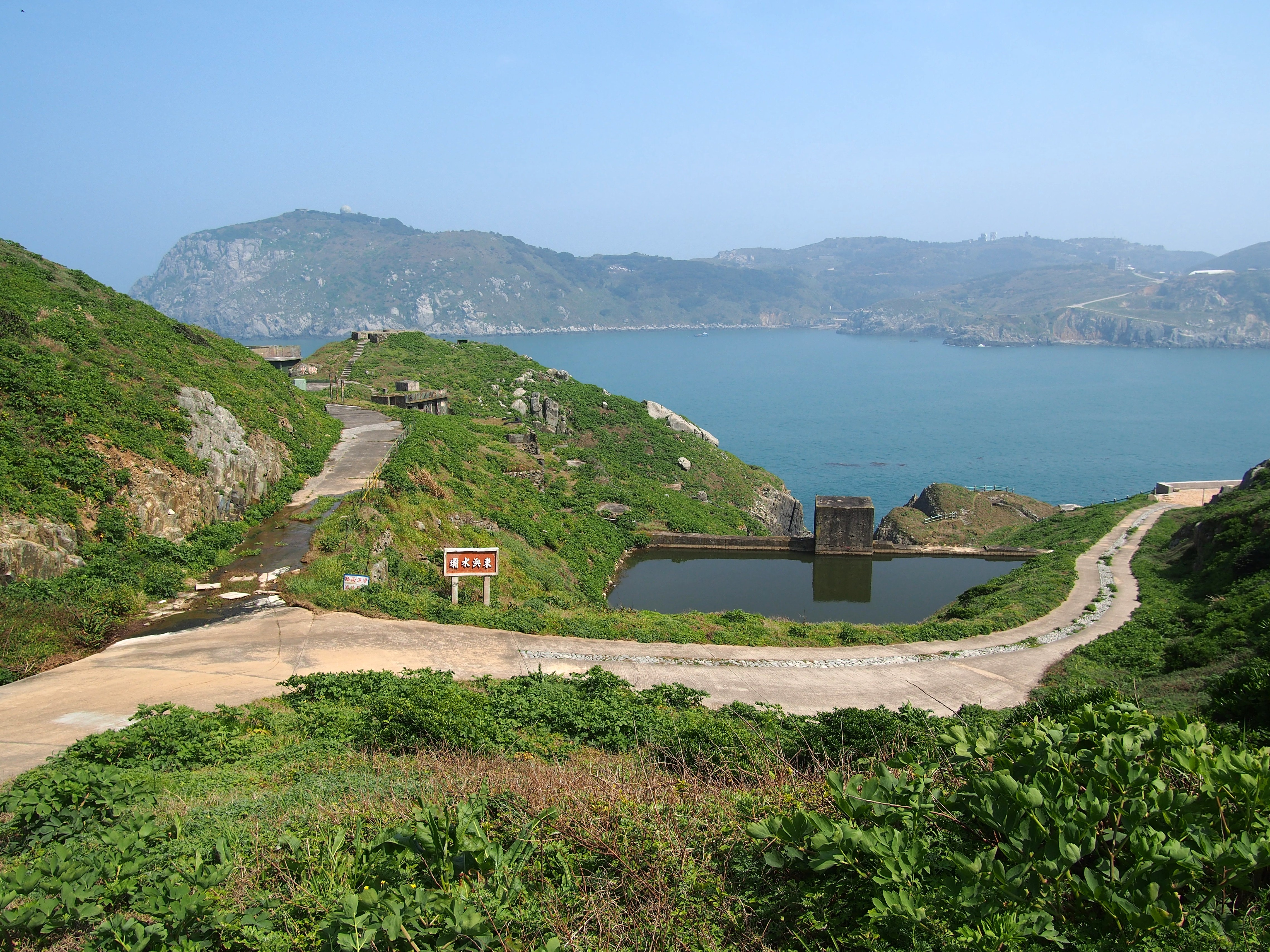 Dong'ao - 2016.04